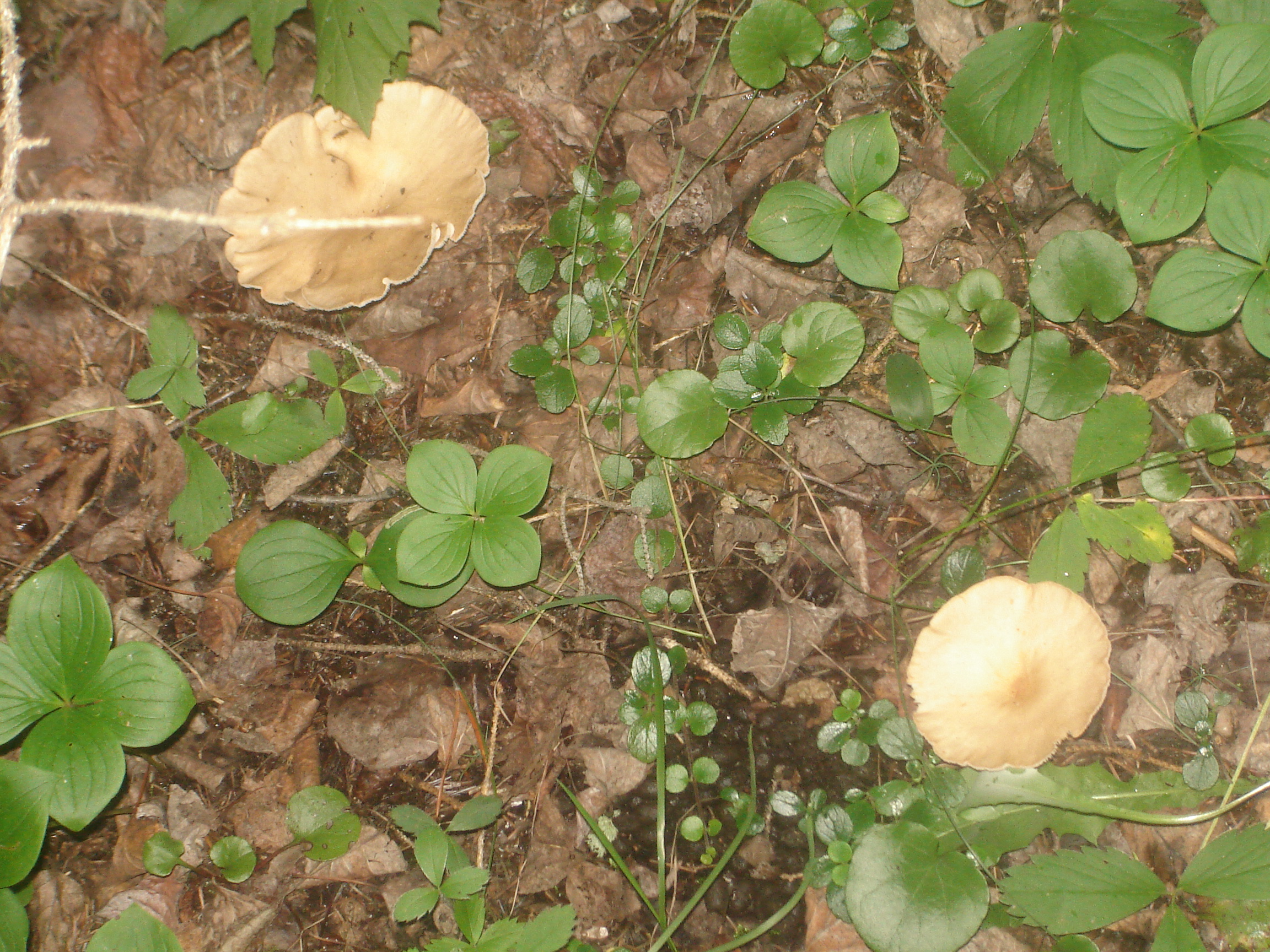 Saskatchewan Mushroom picture taken at Flotten Lake in the Meadow Lake Provincial Park. Along with Cornus canadensis plants in the background as well... Along with Fragaria virginiana in the background.